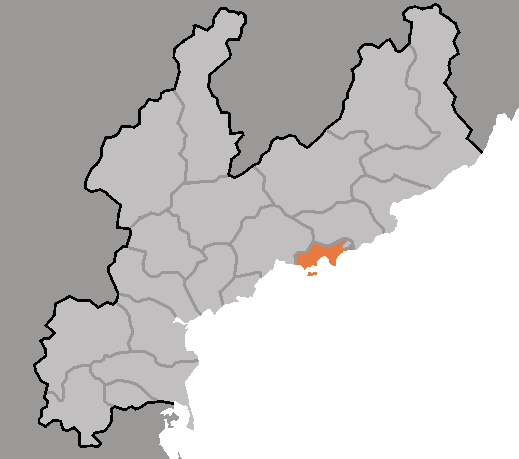 Map of Sinpo, Hamgyong-namdo, DPRK, 2006